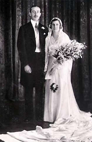 Marriage picture of Henry Abel Smith and May Ella Emma Cambridge